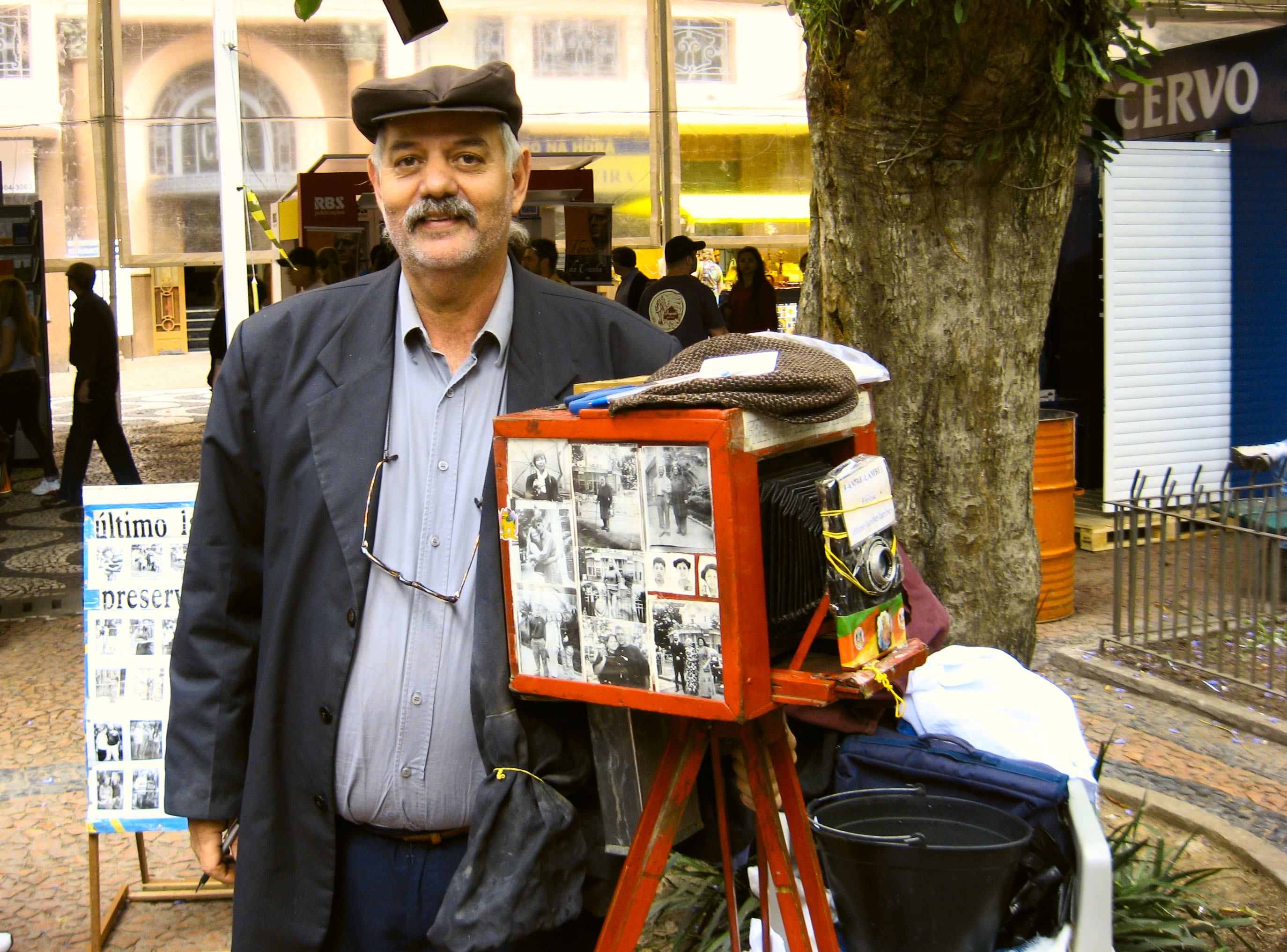 The last old-fashioned street photographer in Porto Alegre. In the book fair.